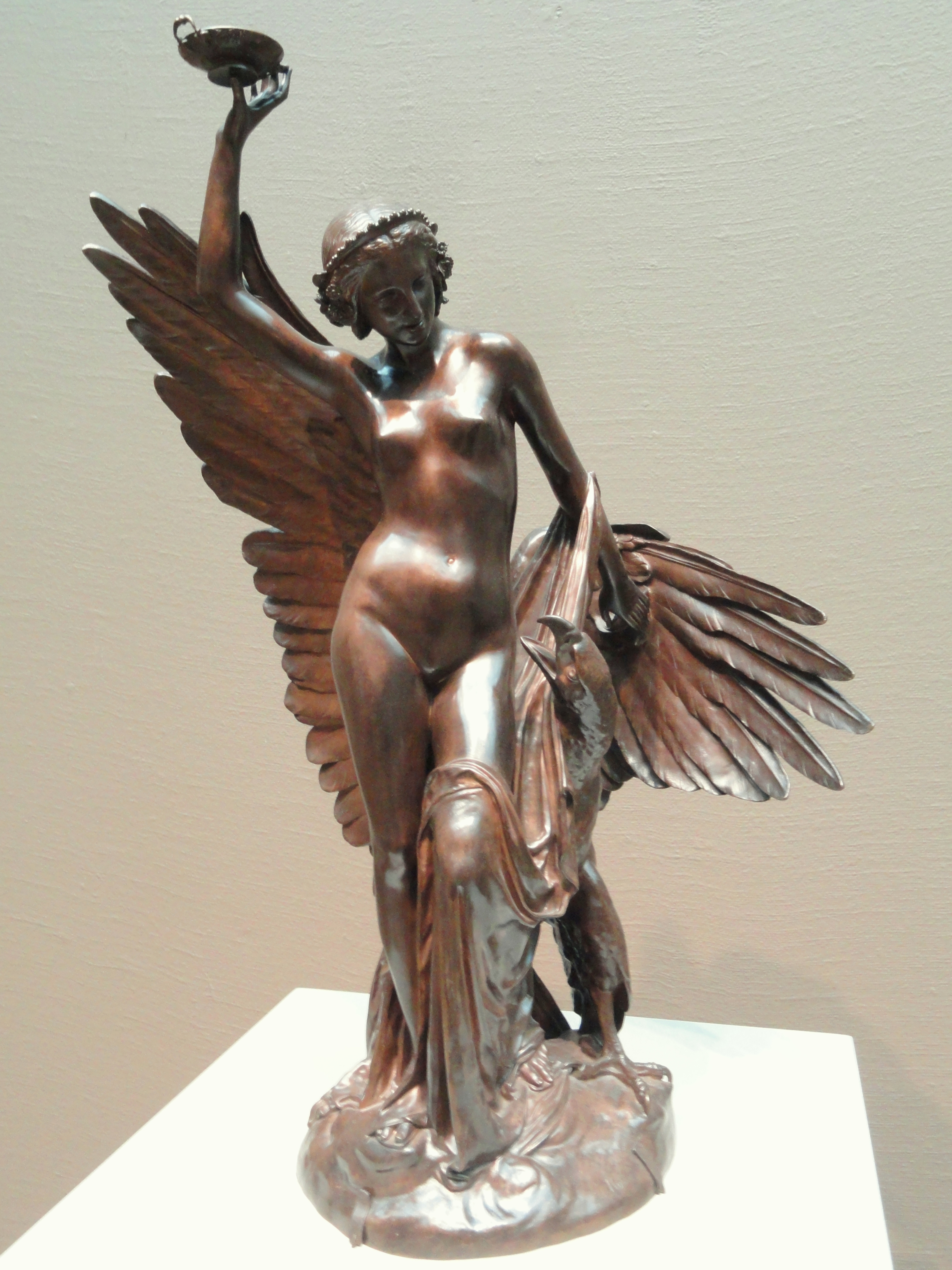 Exhibit in the Art Institute of Chicago, Chicago, Illinois, USA. This artwork is in the public domain because the artist died more than 70 years ago.